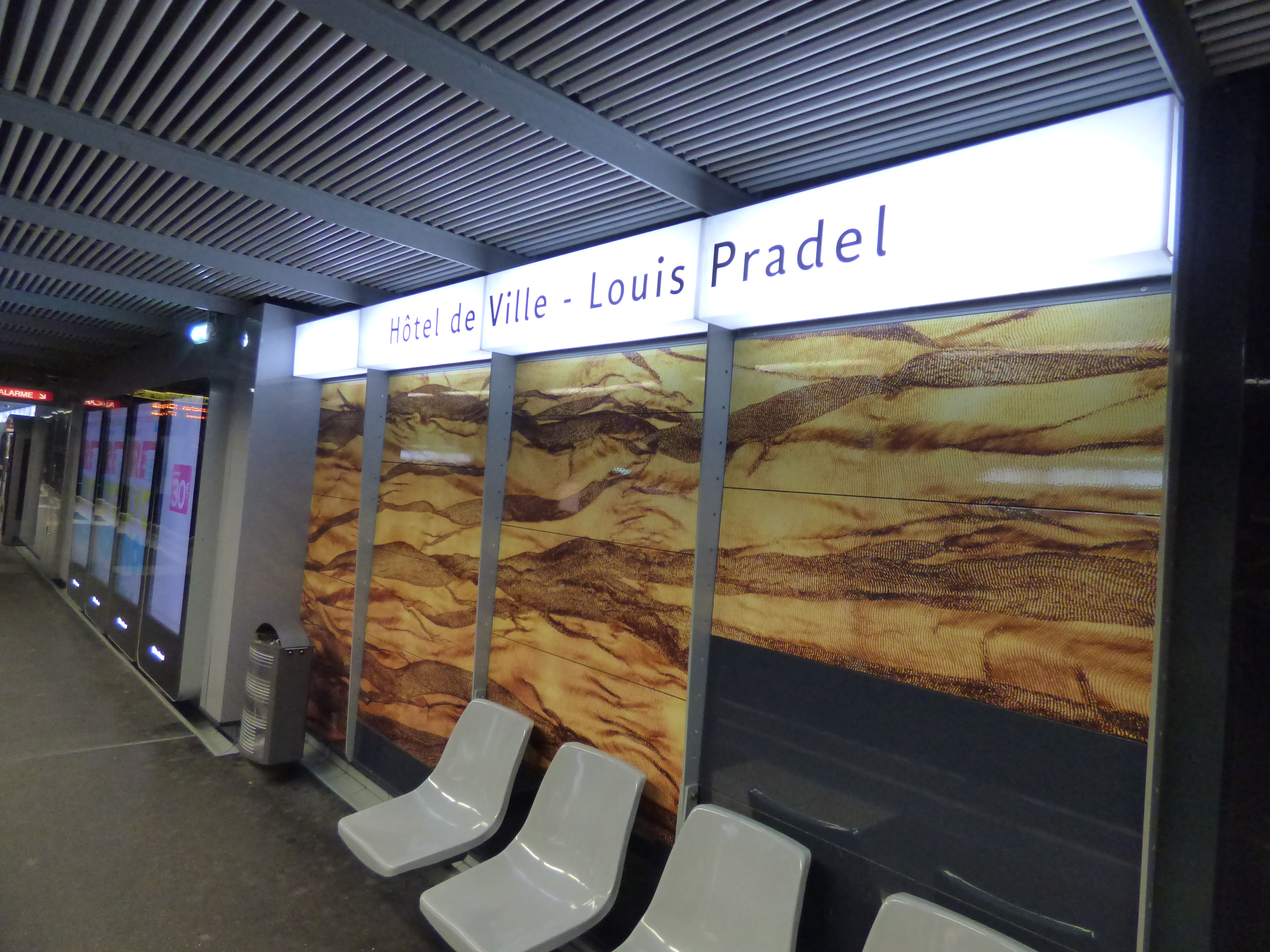 Shortly after arriving at Hôtel de Ville Louis Pradel on the Lyon Metro. The station is near the Place Louis Pradel and the Hôtel de Ville de Lyon (Lyon City Hall). We were heading to the Museum of Fine Arts in Lyon (Musée des Beaux-Arts de Lyon), which wasn't too far away in Place Des Terreaux (if we could find it). The Lyon Metro (French: Métro de Lyon) is the metro system of Lyon, France. It first opened in 1978 (although the metro's current Line C opened, independently, earlier, in 1974). The Lyon Metro currently consists of four lines, serving 40 stations (44 when counting transfer stations twice), and comprising 32.0 kilometres (19.9 mi) of route. It is part of the Transports en Commun Lyonnais (TCL) system of public transport, and is supported by Lyon's network of tramways. Unlike all other French metro systems, but like the SNCF and RER, Lyon Metro trains run on the left. This is the result of an unrealised project to run the metro into the suburbs on existing railway lines. The loading gauge for lines A, B, and D is 2.90 m (9 ft 6.2 in), more generous than the average for metros in Europe. The loading gauge for line C is 2.78 m (9 ft 1.4 in). The Lyon Metro owes its inspiration to the Montreal Metro which was built a few years prior, and has similar (wider) rubber-wheel cars and station design. The metro had 740,000 daily weekday boardings in 2011. Hôtel de Ville Louis Pradel is on Lyon Metro line A. Line C also starts from here towards Cuire.